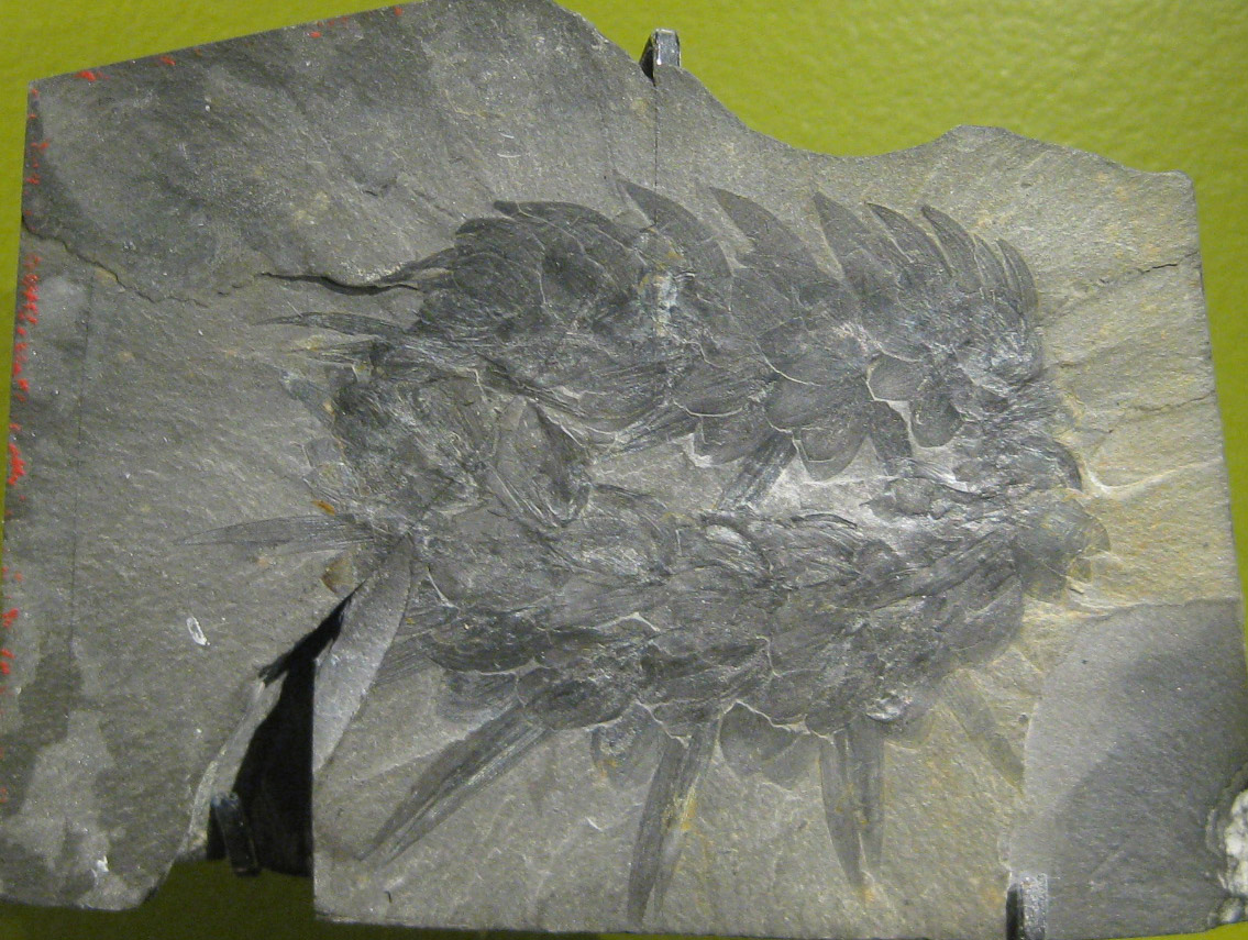 Fossil specimen of Wiwaxia from the Burgess Shale on display at the Smithsonian in Washington, DC.